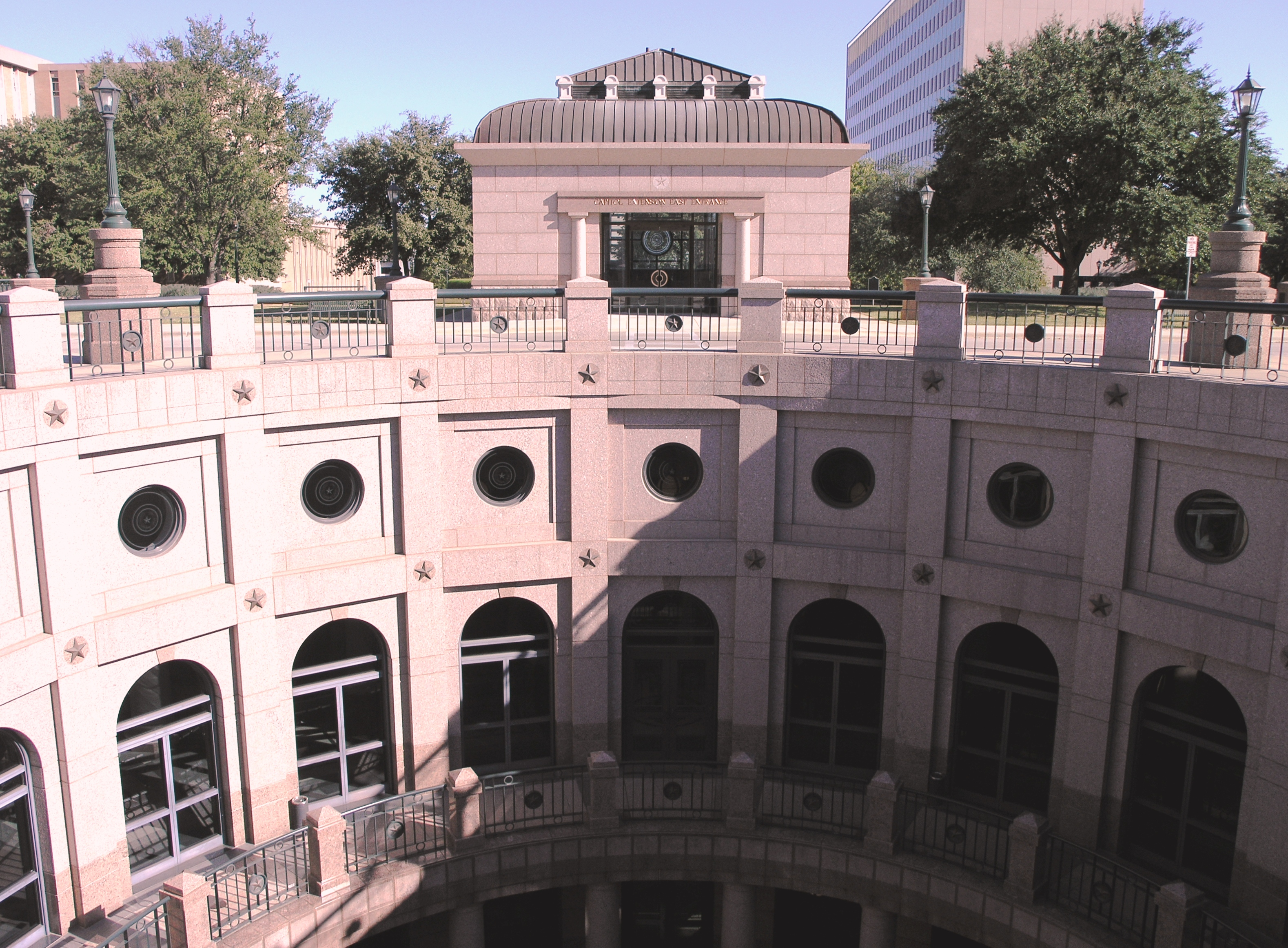 Image of Austin, Texas